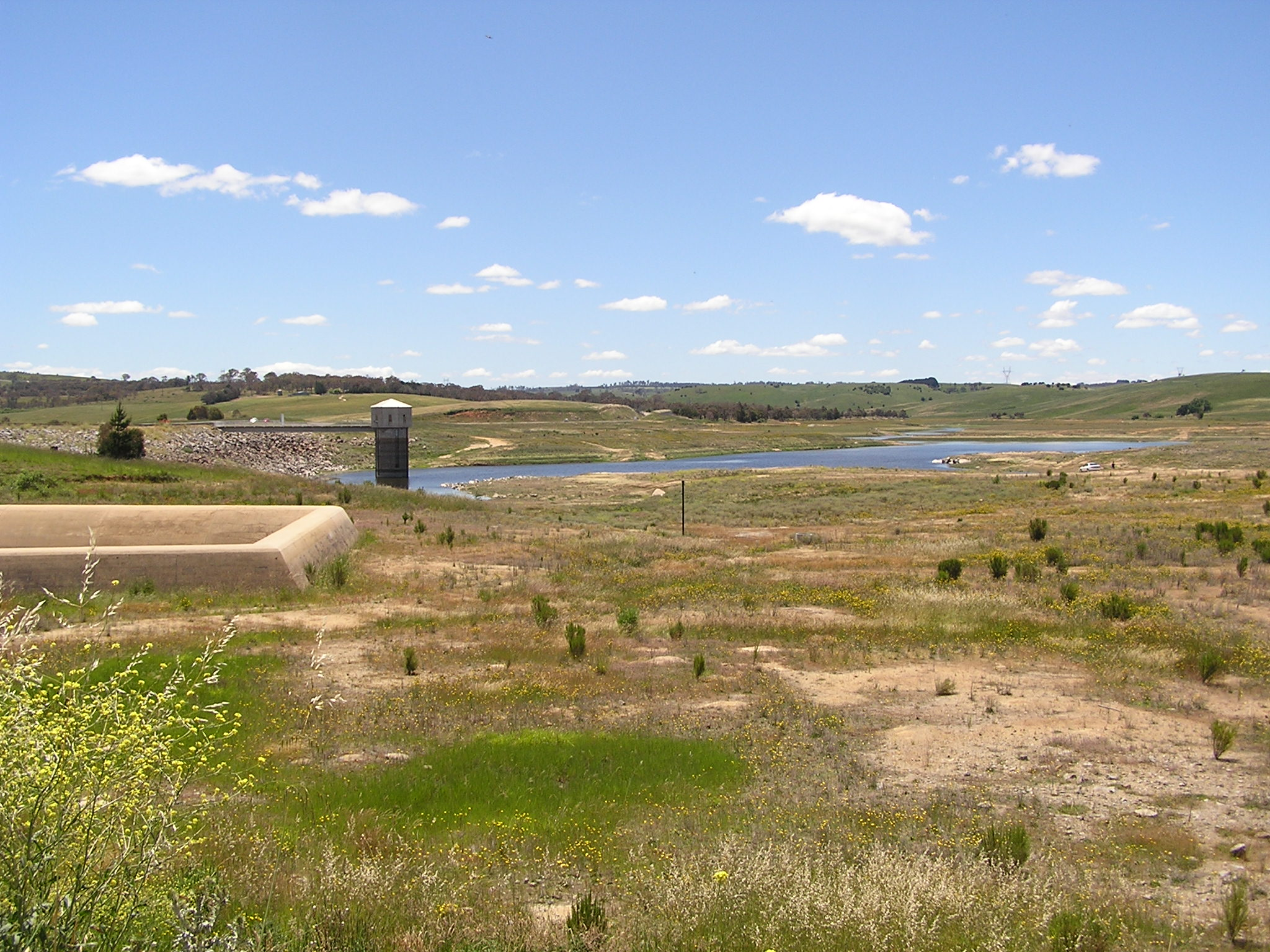 Pejar dam, the water supply for Goulburn, New South Wales, in November 2005 Picture taken by AYArktos 13 November 2005